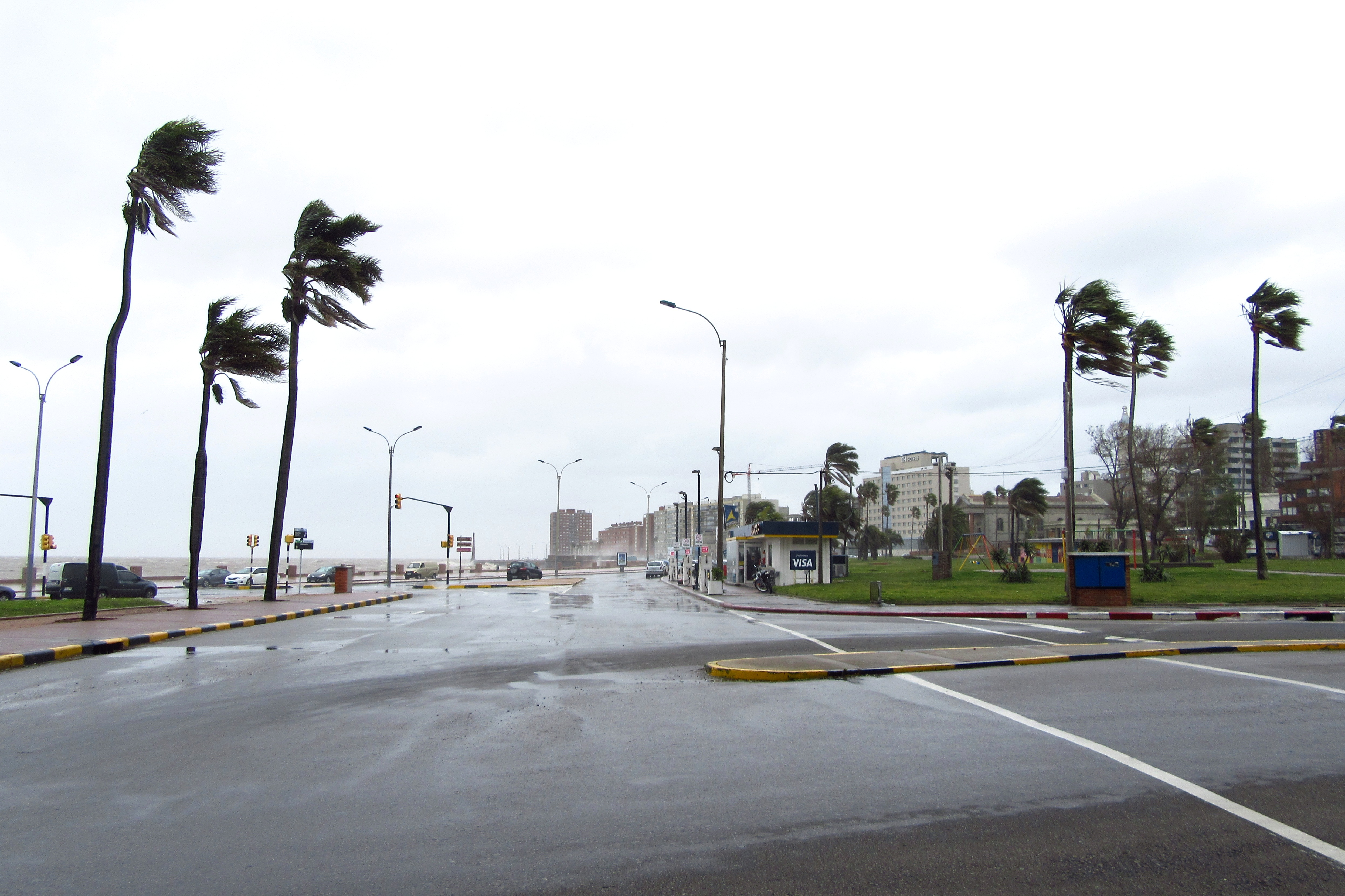 Montevideo